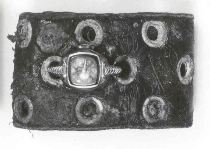 Wristband and watch worn by the Atlantic County Jane Doe